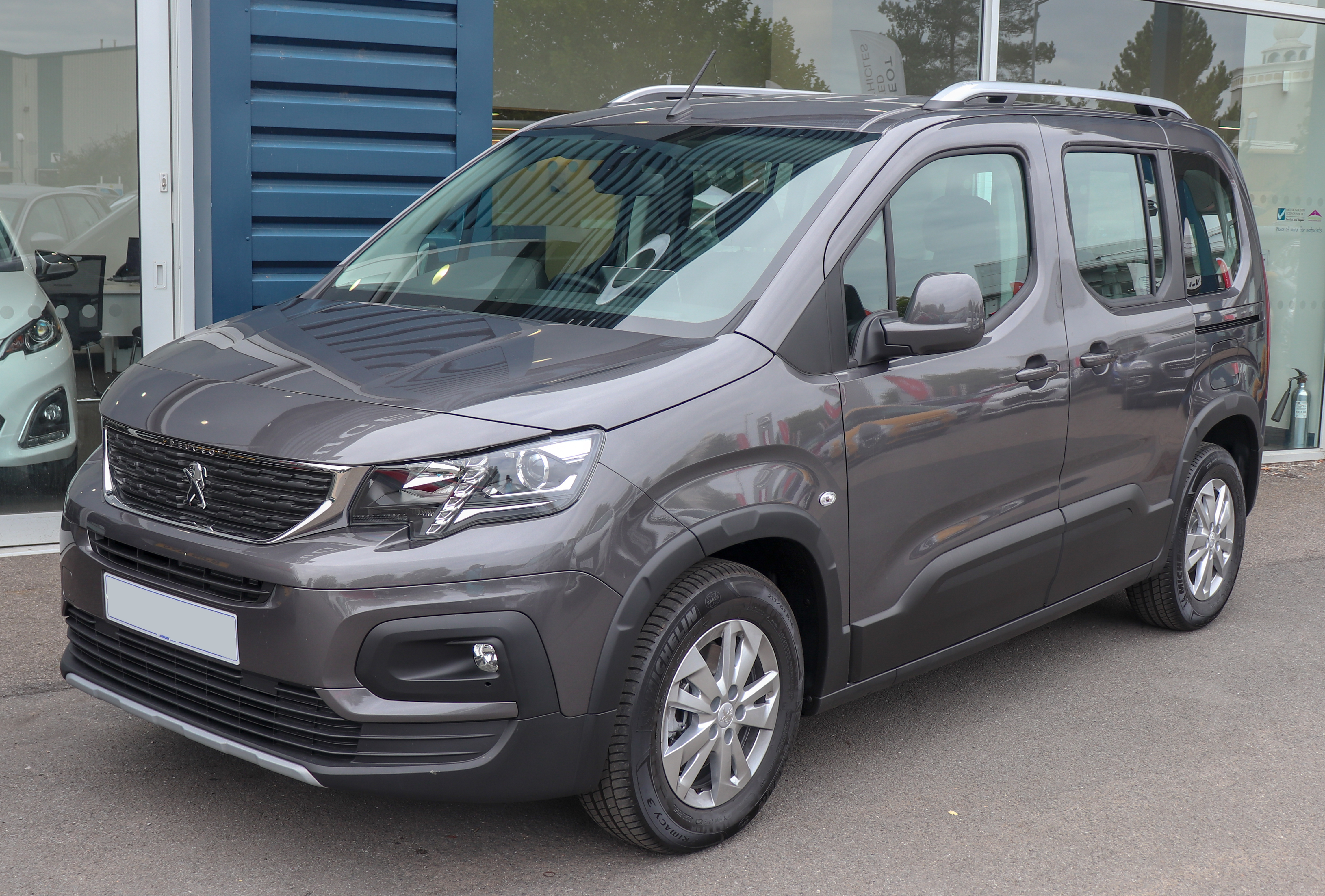 2018 Peugeot Rifter Allure BlueHDi 1.6 Front Taken in Leamington Spa